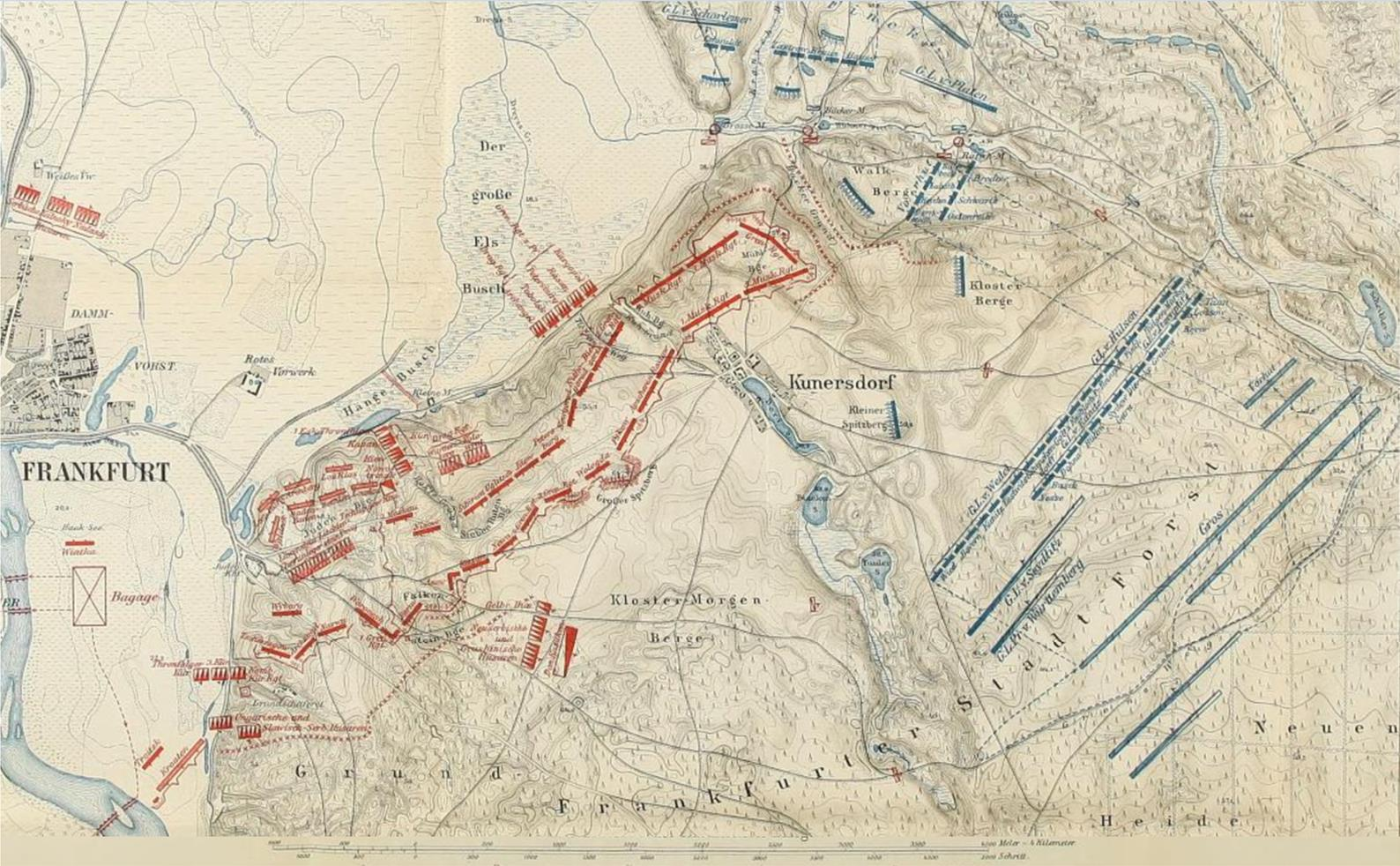 Layout of battle at 11:00 a.m.